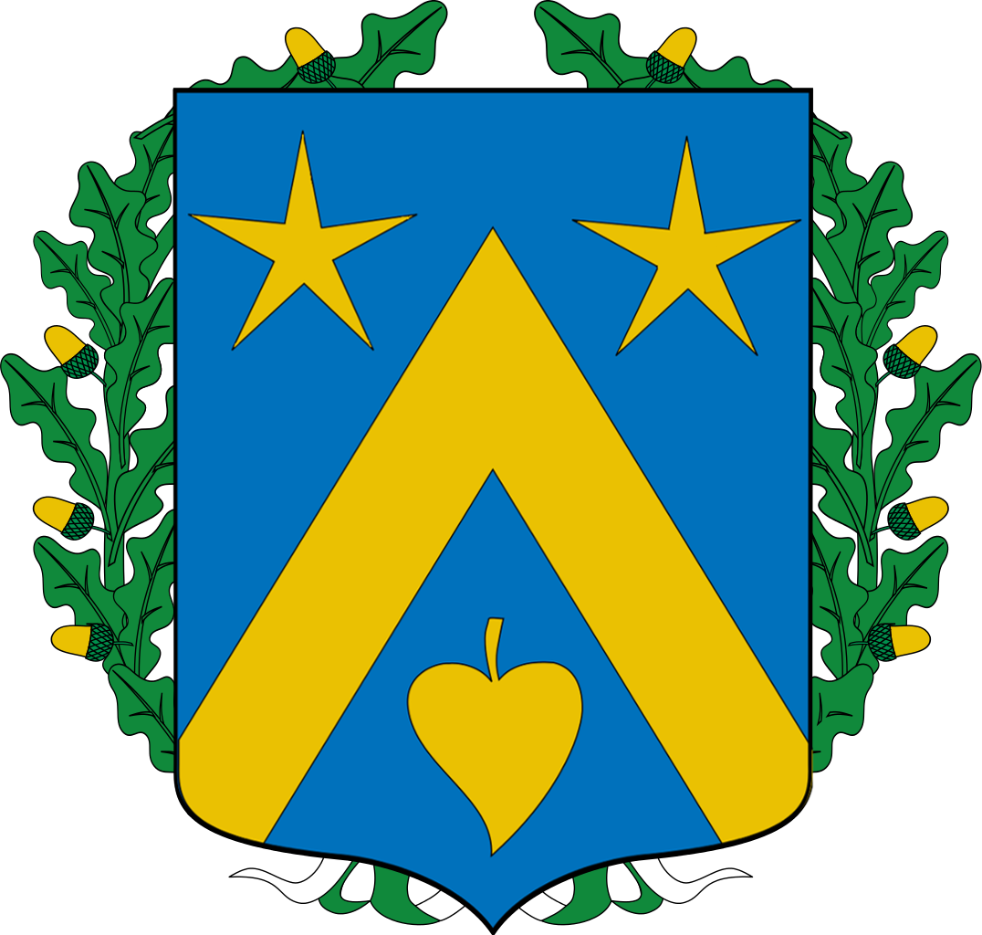 Sopelako armarria